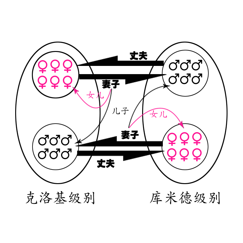 Group_marriage_in_Mount_Gambier